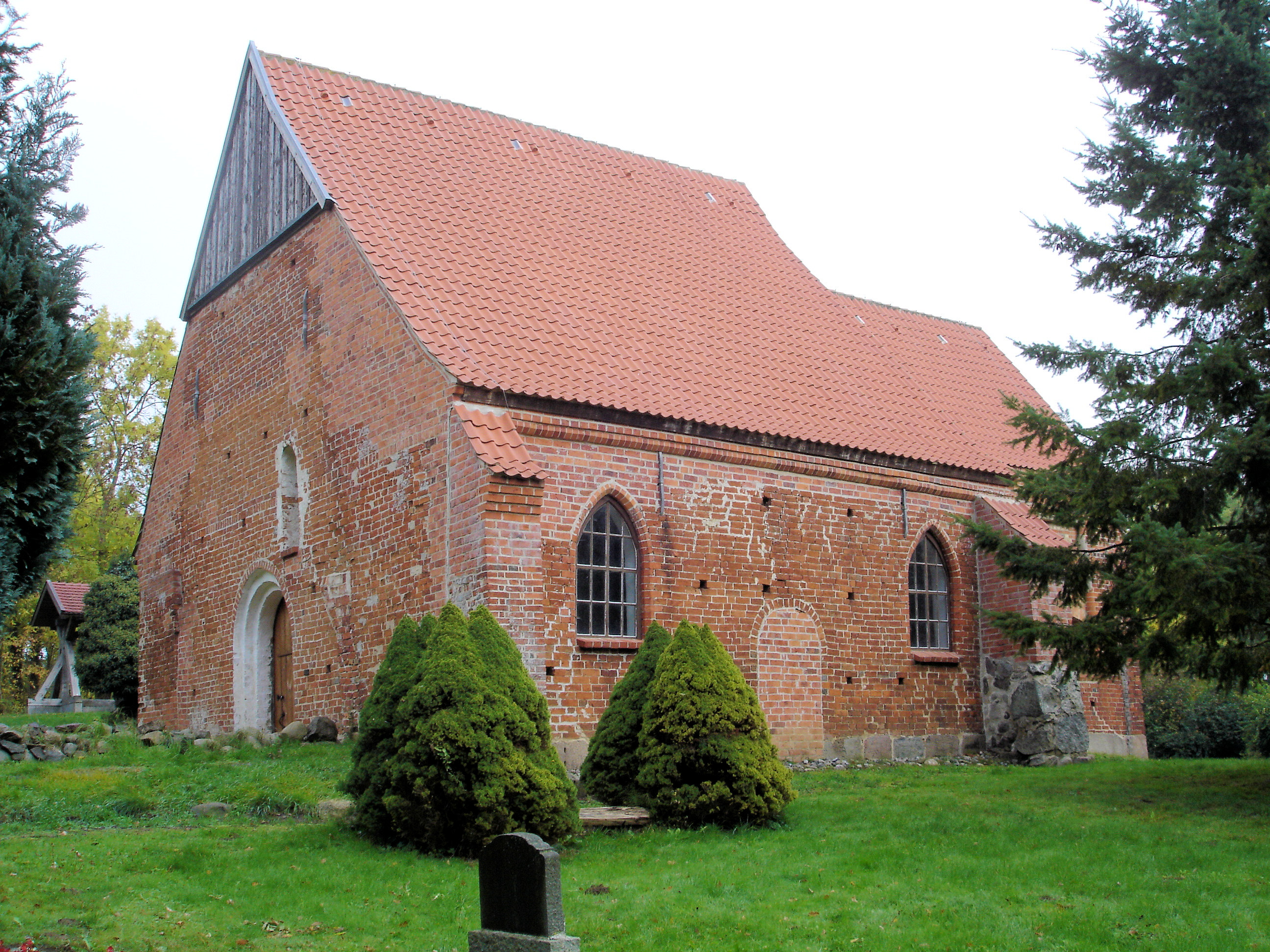 Church in Berendshagen, Mecklenburg, Germany